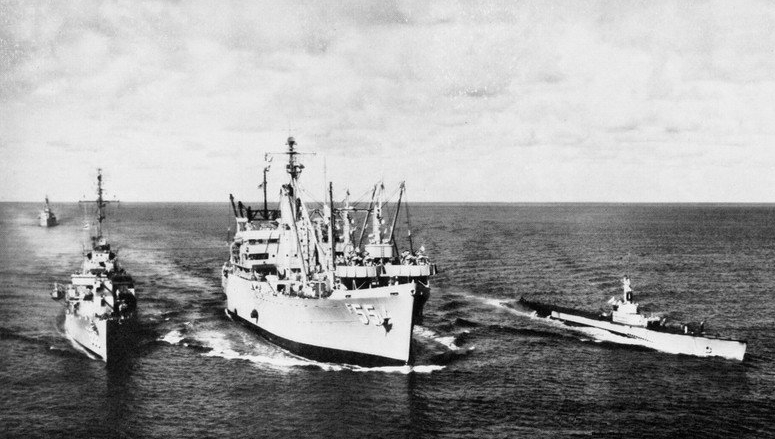 The U.S. Navy Alstede-class stores ship USS Aludra (AF-55) underway with a Fletcher-class destroyer and a submarine in the eastern Philippine Sea during the 1958 Taiwan Strait Crisis.